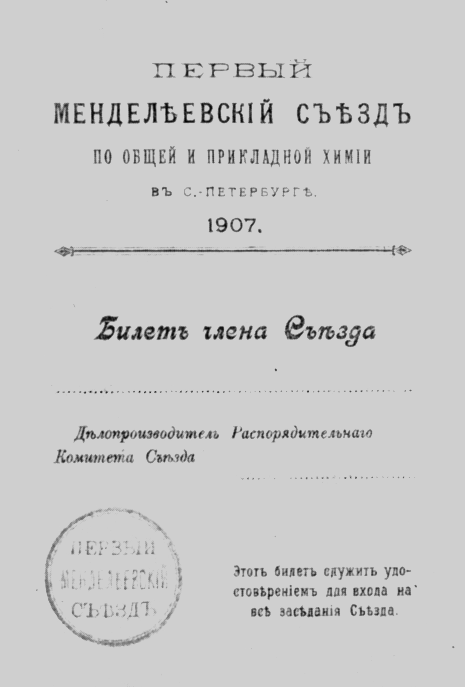 Ticket of member I-th Mendeleev Congress. SPb. 1907.